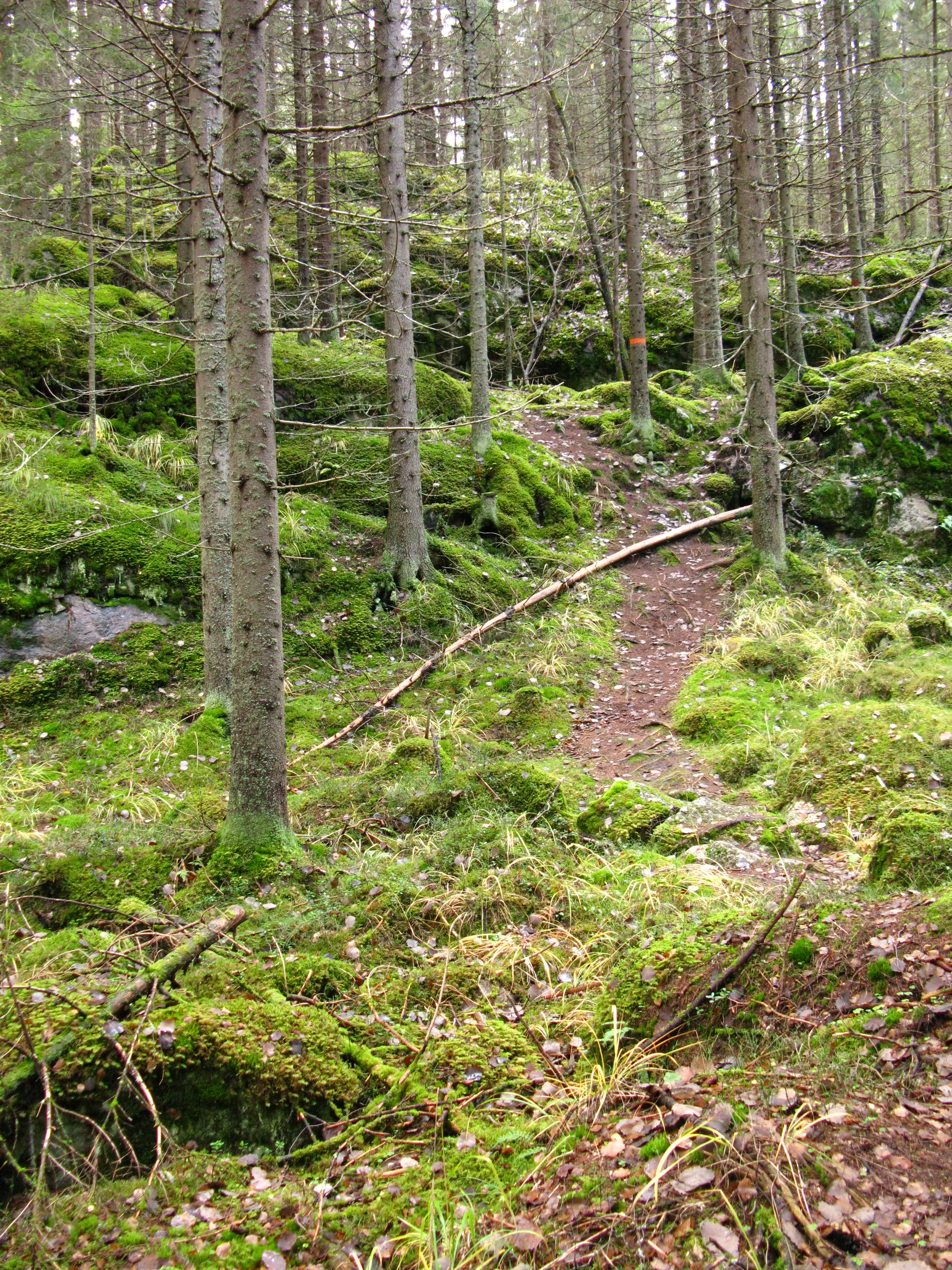 The outdoor walking path "Pöröpeikon polku" in Parikkala, Finland.